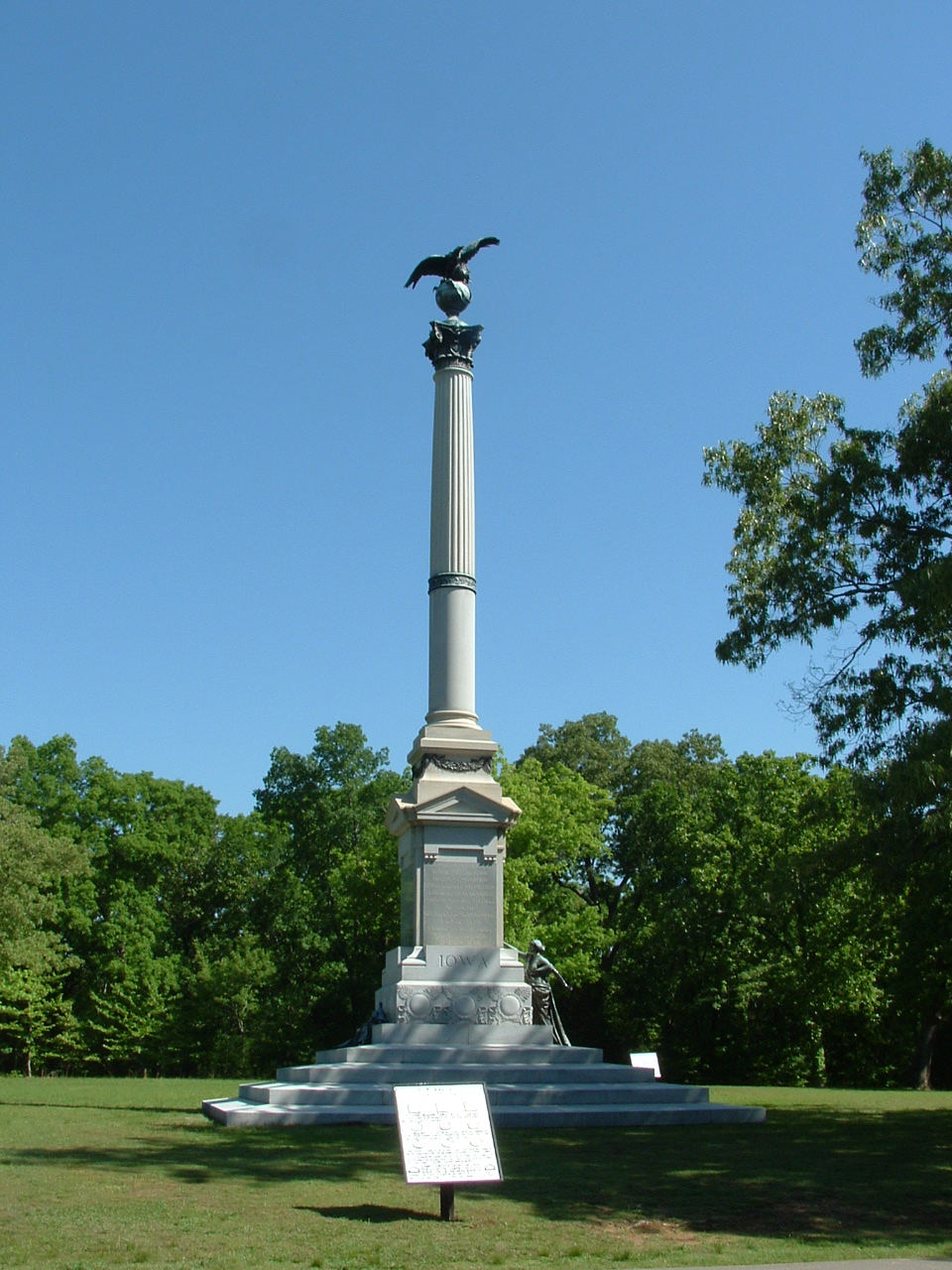 Iowa Monument, the tallest monument in Shiloh National Military Park, Tennessee, USA